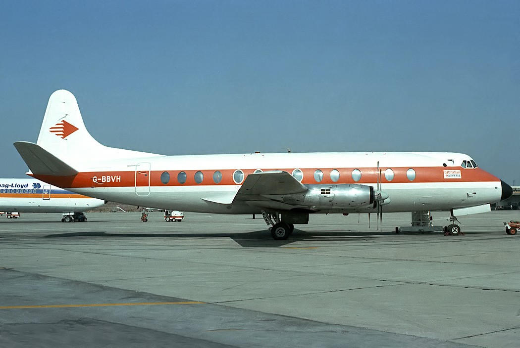 Vickers 807 Viscount Gibraltar Airways (G-BBVH) at Faro International Airport